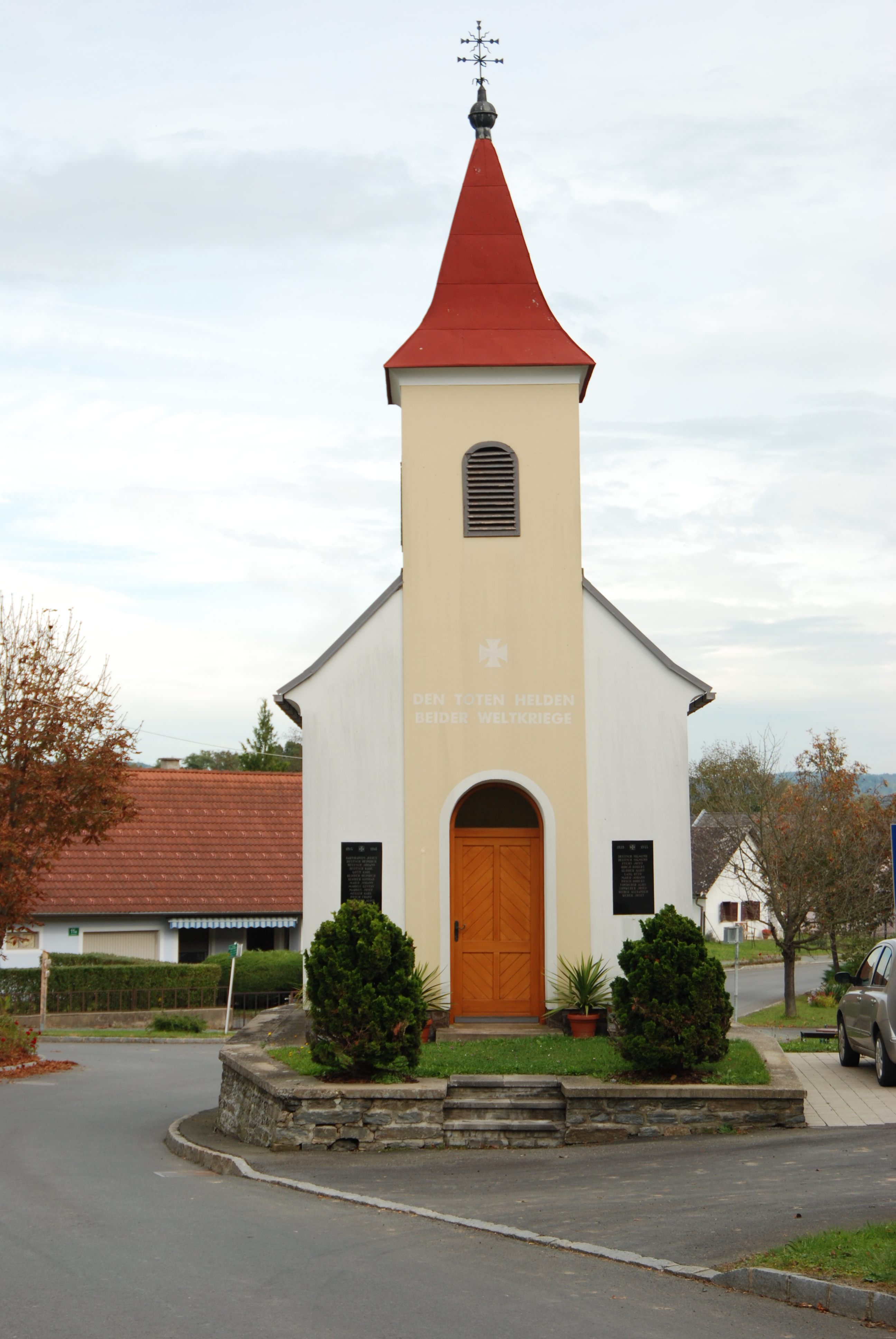 Kapelle Rosendorf